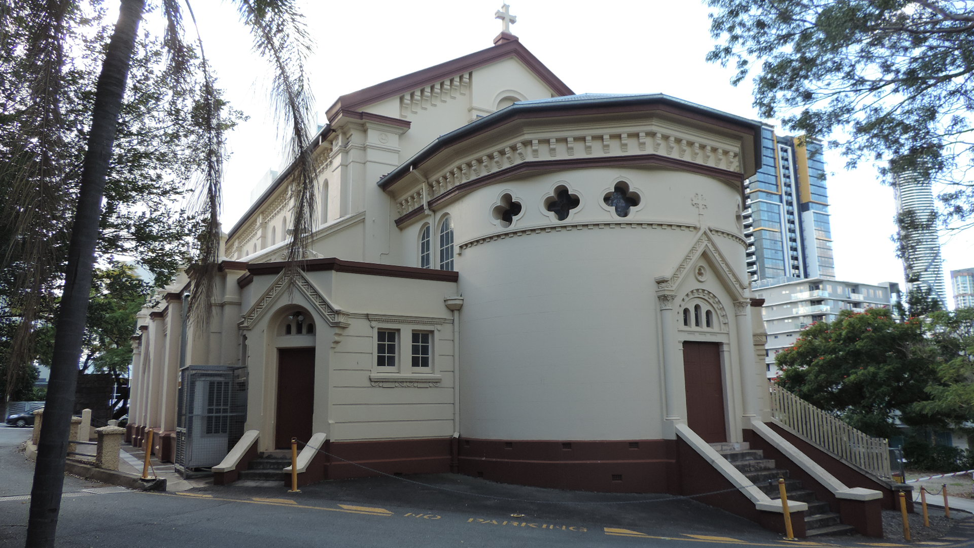 St Mary's Roman Catholic Church, 20 Merivale Street in South Brisbane, 2020